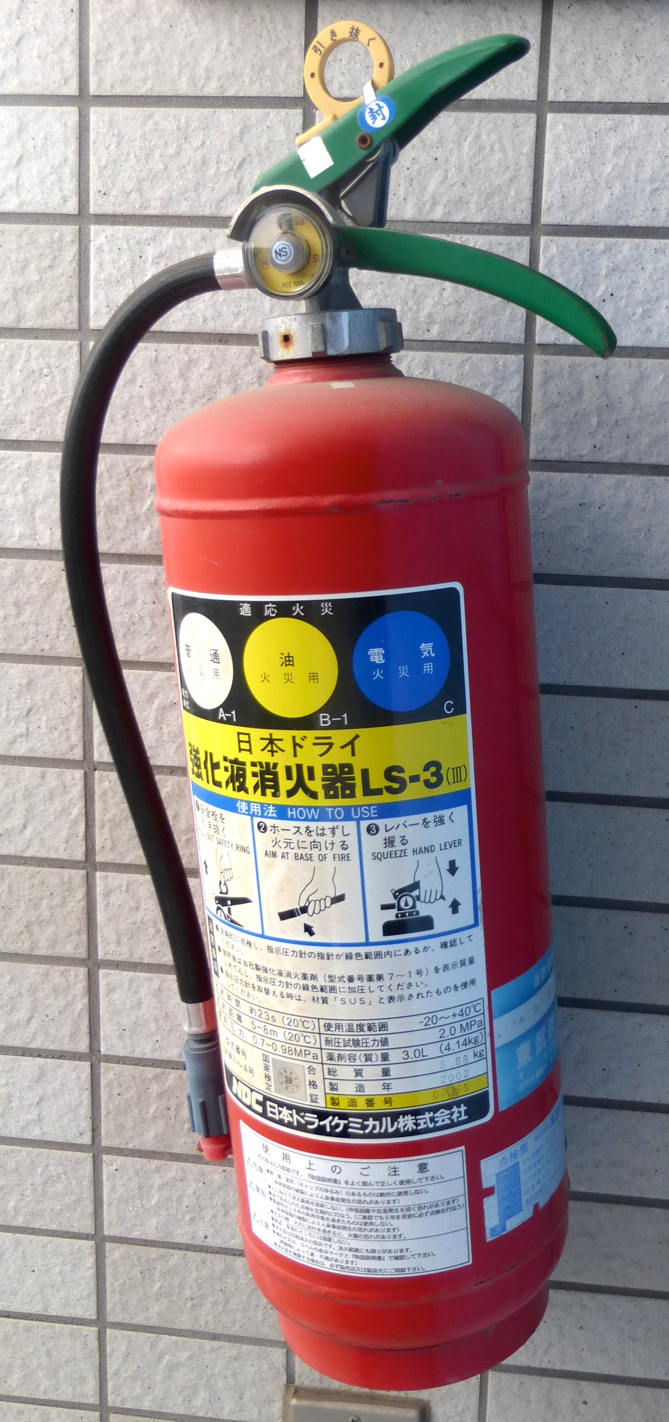 日本の消火器 (Japanese fire extinguisher)